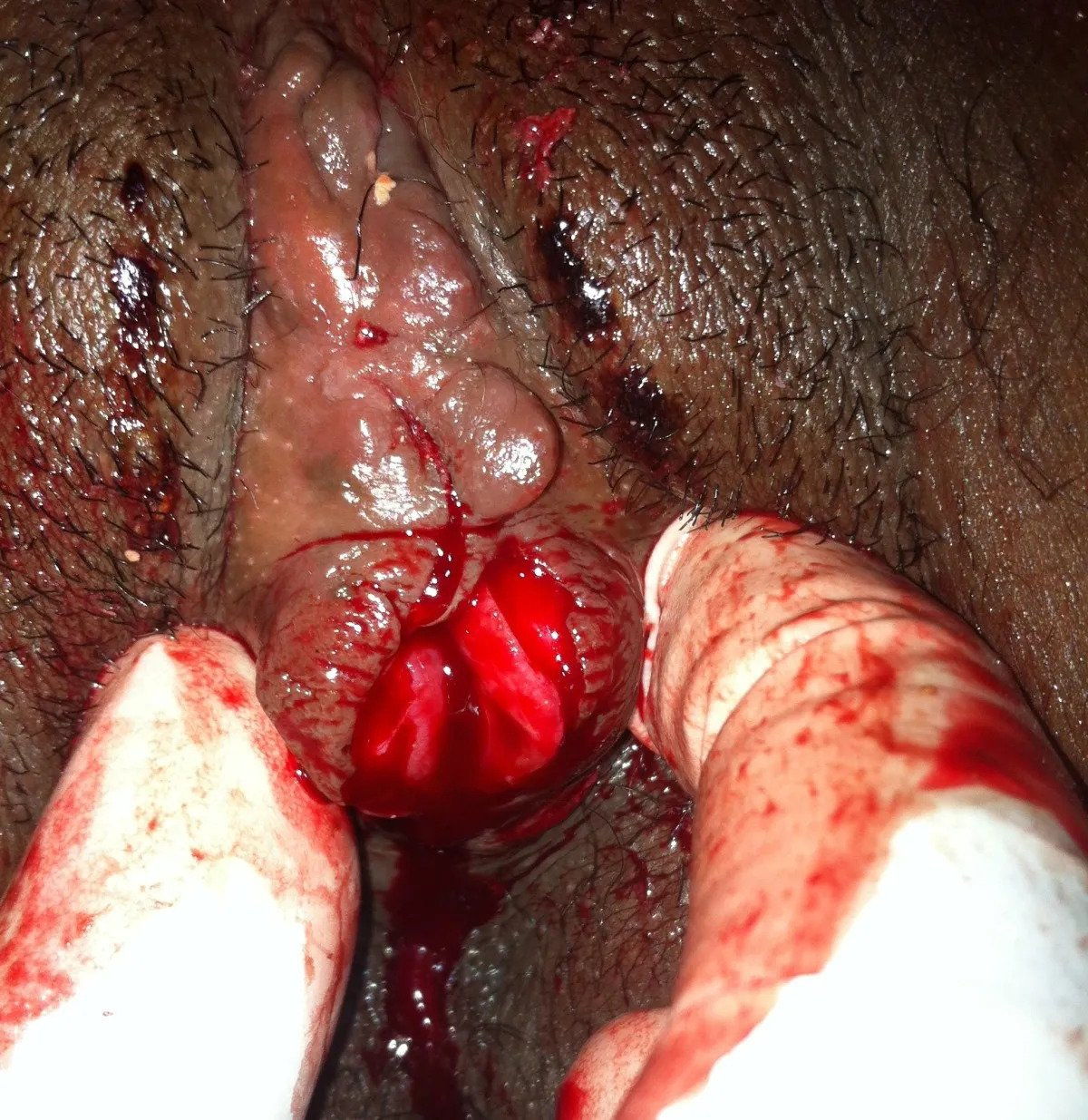 21 yrs old, Ethiopian lady with post circumcision inclusion cyst of the vulva containing stones. The lady underwent circumcision (infibulation) at the age of 8 years. The vulva after partial incision. Picture taken after incision of the lower half of the fused labiae and extraction of the 1st stone; thick discharge is visible through a dimple at the upper end of the fused labiae with underlying 2nd stone before full incision. Epidermoid inclusion cysts of the vulva are one of the commonest late complications of female genital cutting. These cysts occur as a result of the implantation of the epidermal keratinized squamous epithelial cells and sebaceous glands into the dermis in the line of circumcision scars and typically present as painless cystic vulvar swellings. Calcifications inside these cysts very rarely lead to formation of ‘vulvar stones’ which are the result of delayed presentation of patients.